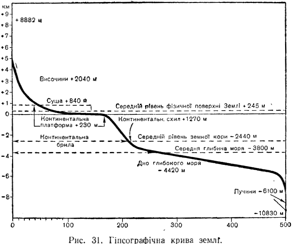 Earth's hypsometric curve